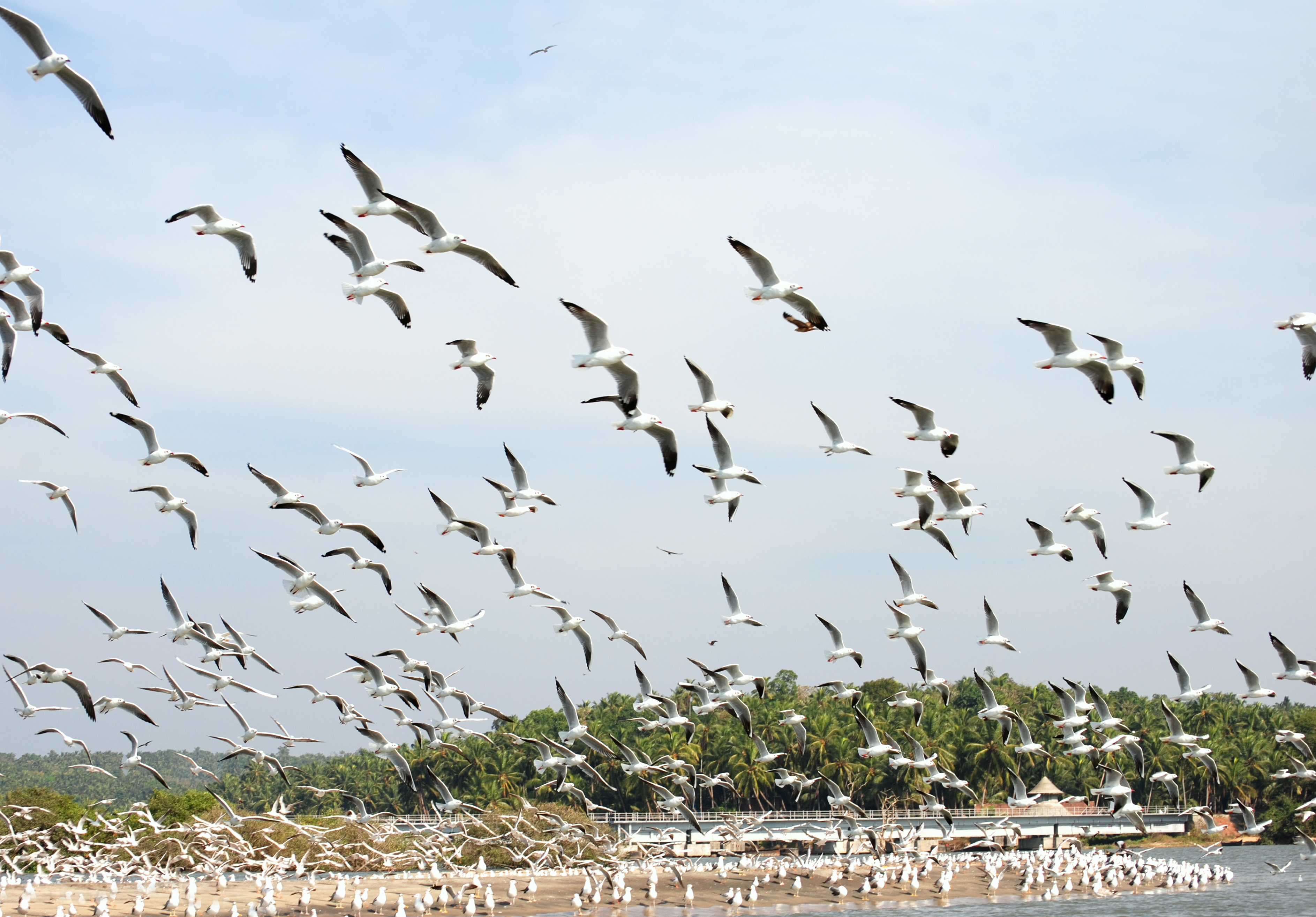 Chroicocephalus brunnicephalus, Chroicocephalus ridibundus, Kadalundi Bird Sanctuary